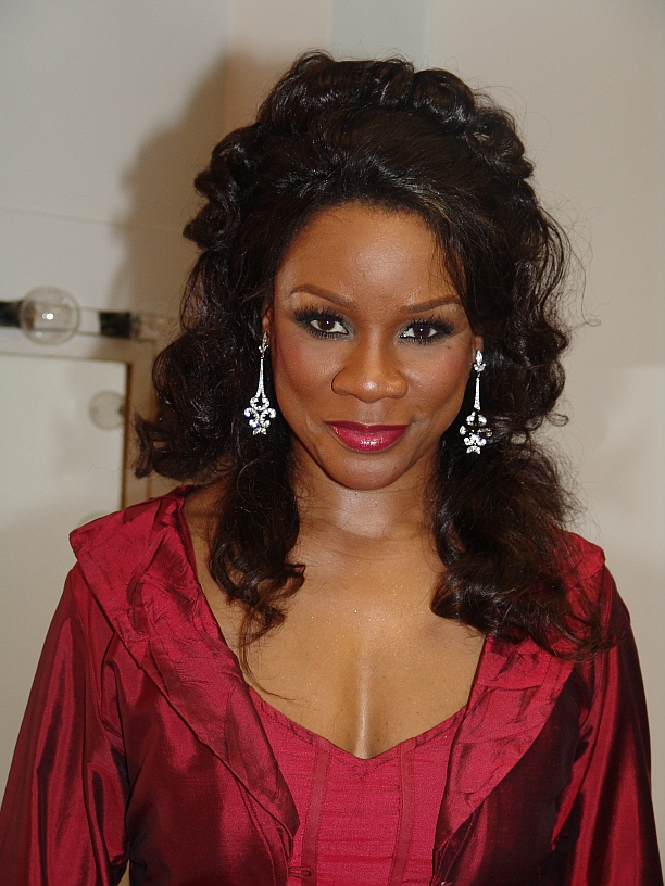 From Baltimore M.D. © copyright John Mathew Smith